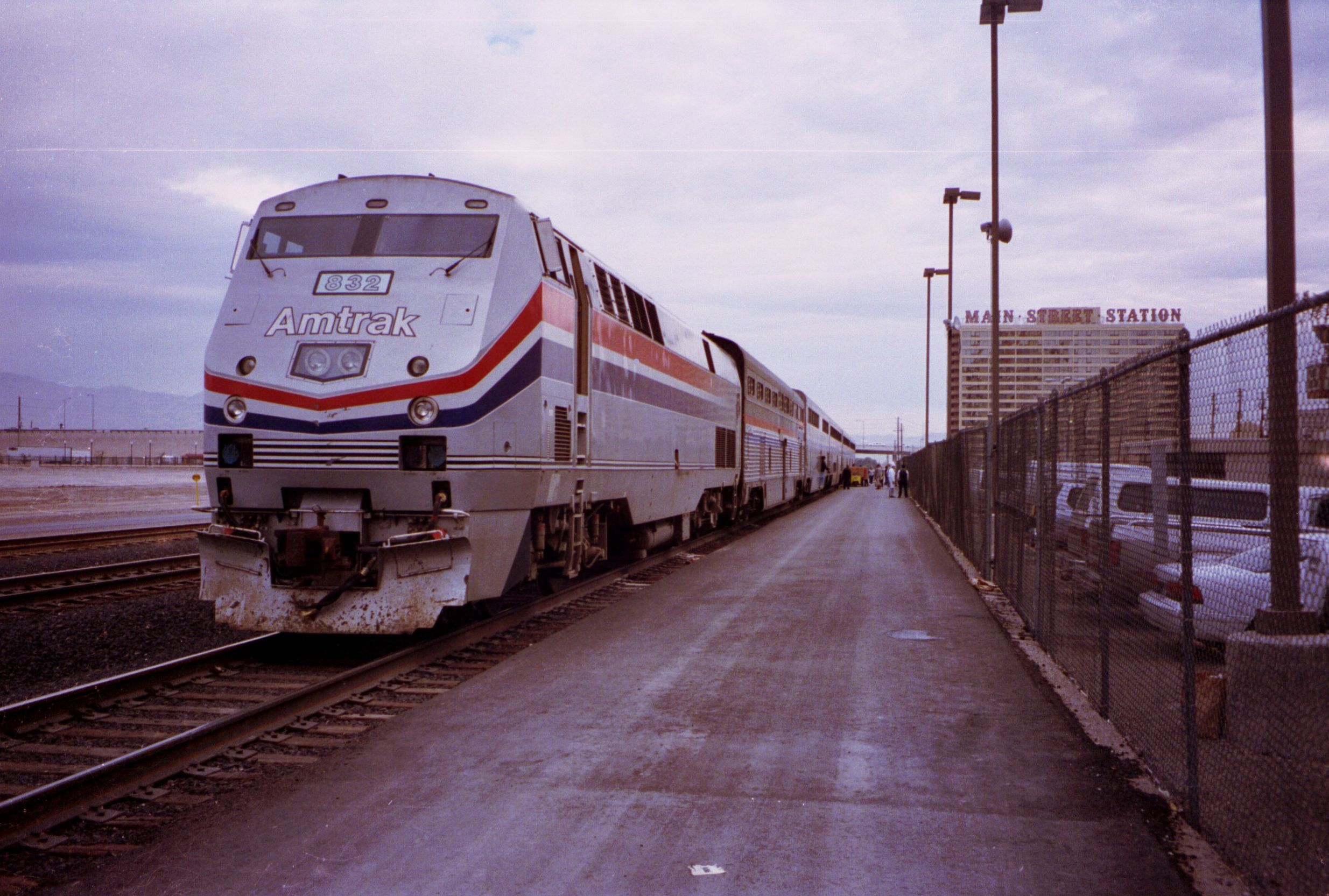 Amtrak P40DC #832 pulling the now-discontinued Desert Wind. The lead car is a Hi-Level coach; the rest are Superliners.